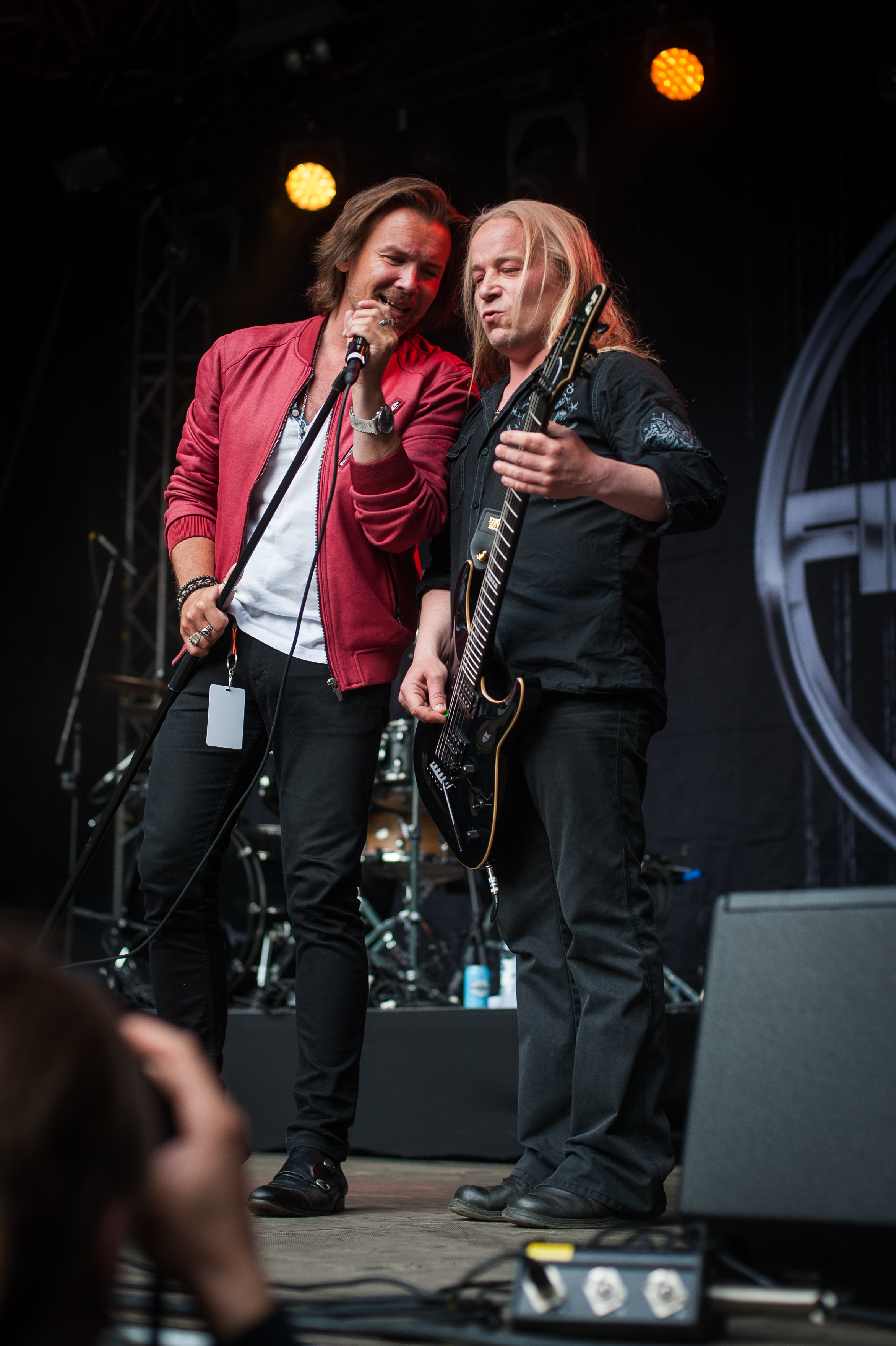 Finnish hard rock band Brother Firetribe performing at the 2018 South Park Festival in Tampere, Finland.